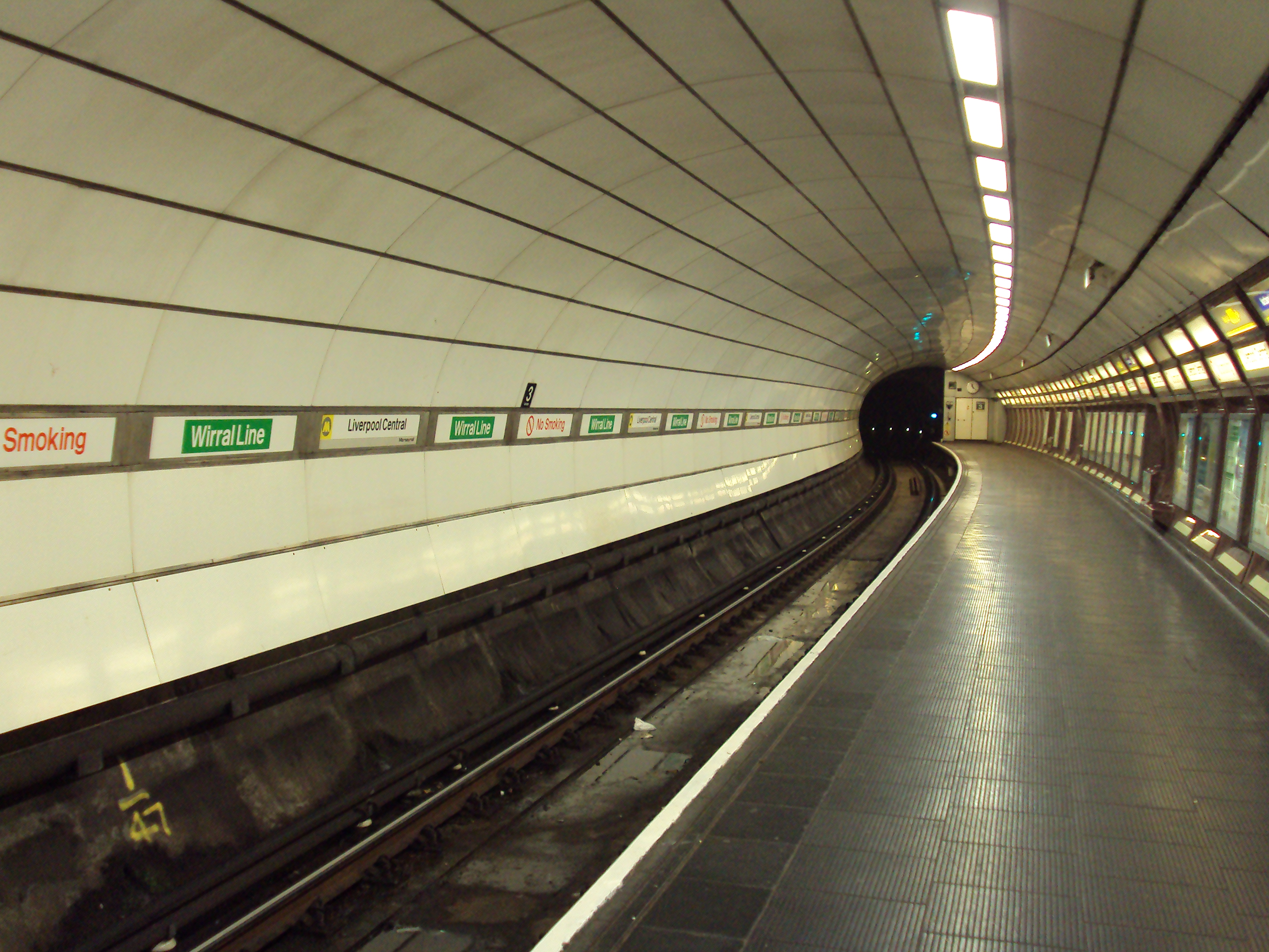 The deep-level Wirral Line platform of Liverpool Central railway station.